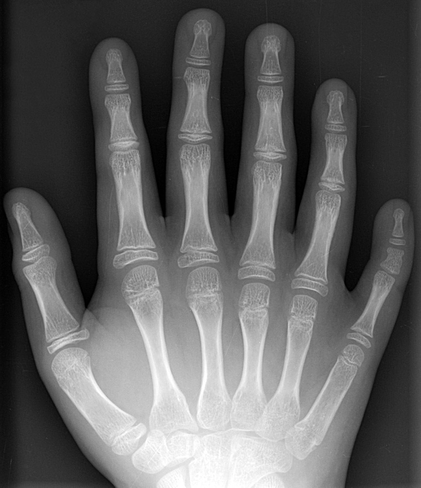 Conversion of a DICOM-format X-ray from a patient of User:Drgnu23, a ten year old male. This is the patient's right hand, anterior-posterior view. Identifying tags and such have been stripped. The image is his, released under the GFDL. The image was subsequently altered by user:Grendelkhan, user: Raul654, and user:Solipsist.